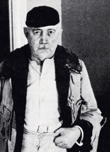 The Swedish prolific translator of Böhme, Swedenborg and Persian Sufi literature, friherre (baron) Eric Hermelin in his sheepskin coat ca. 1940